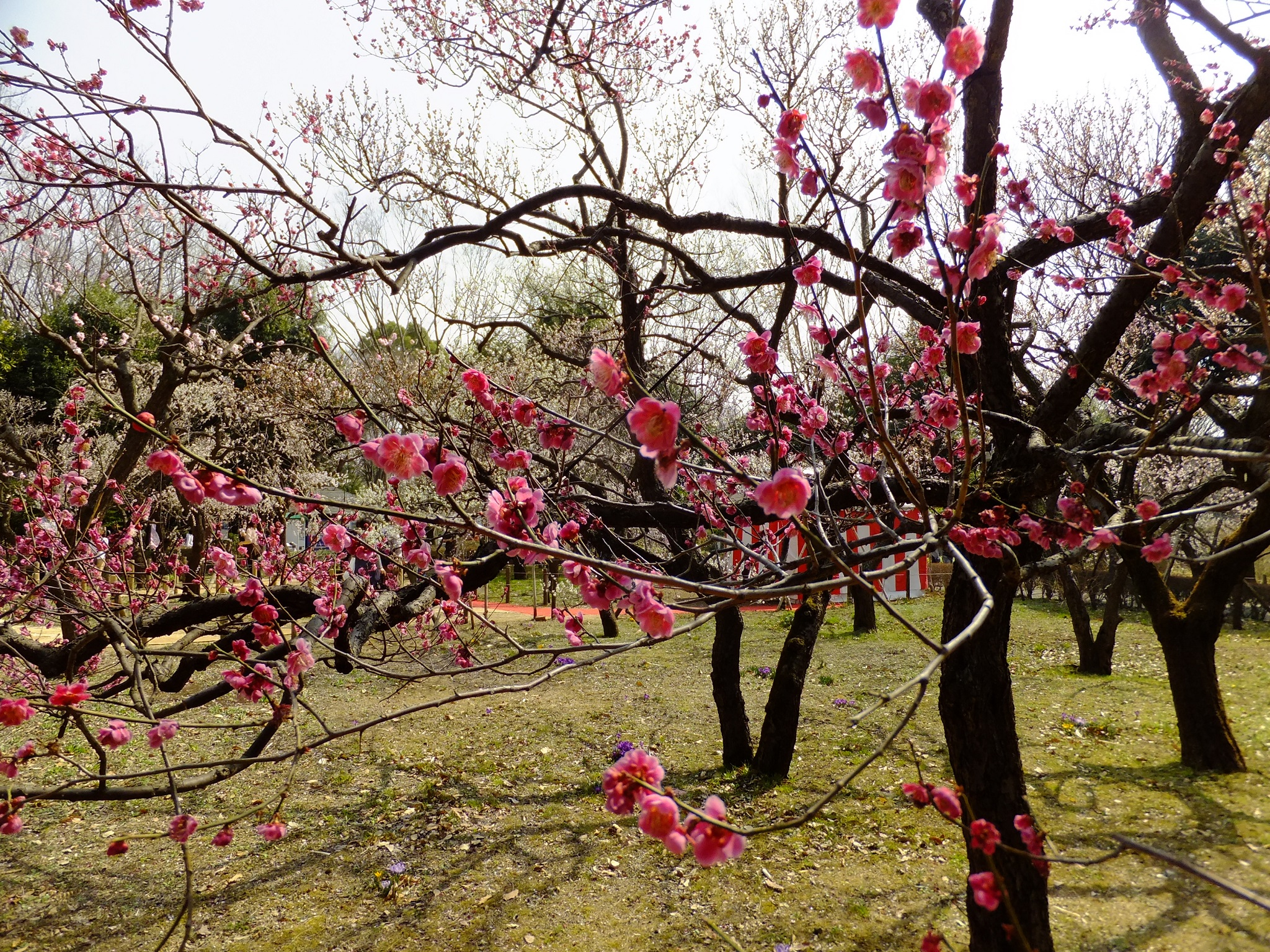 Ume Garden in the Kyōdo-no-mori open-air museum, in Fuchu, Tokyo, Japan, in 10 March 2013